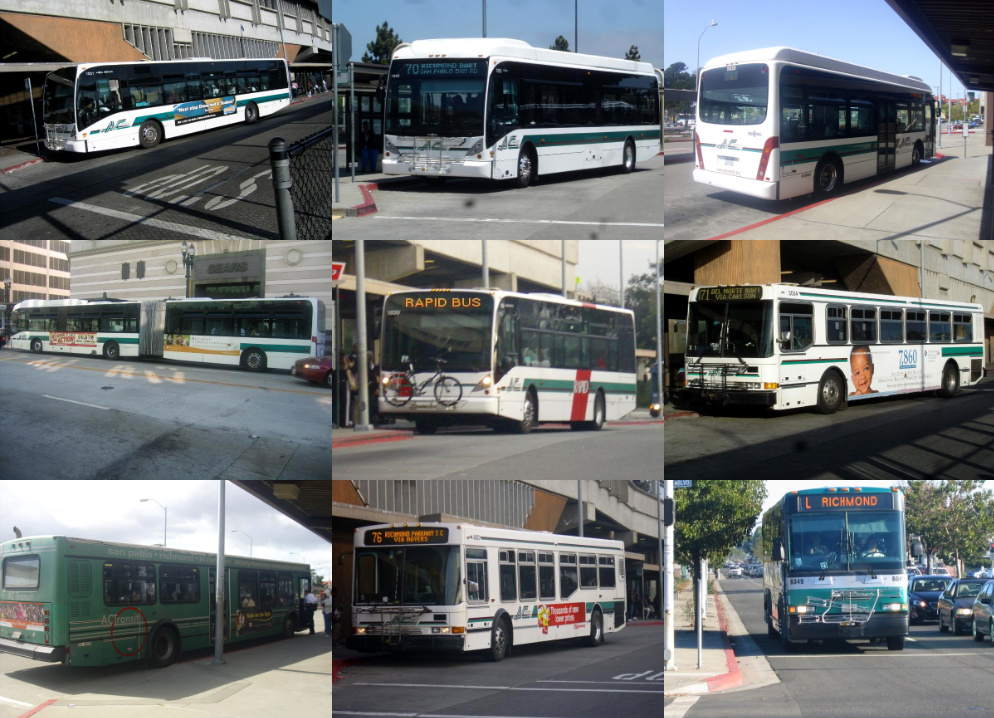 A collage of the numerous buses operated by AC Transit, made by Van Hool, North American Bus Industries (NABI), and Motor Coach Industries (MCI). All images taken are my own.